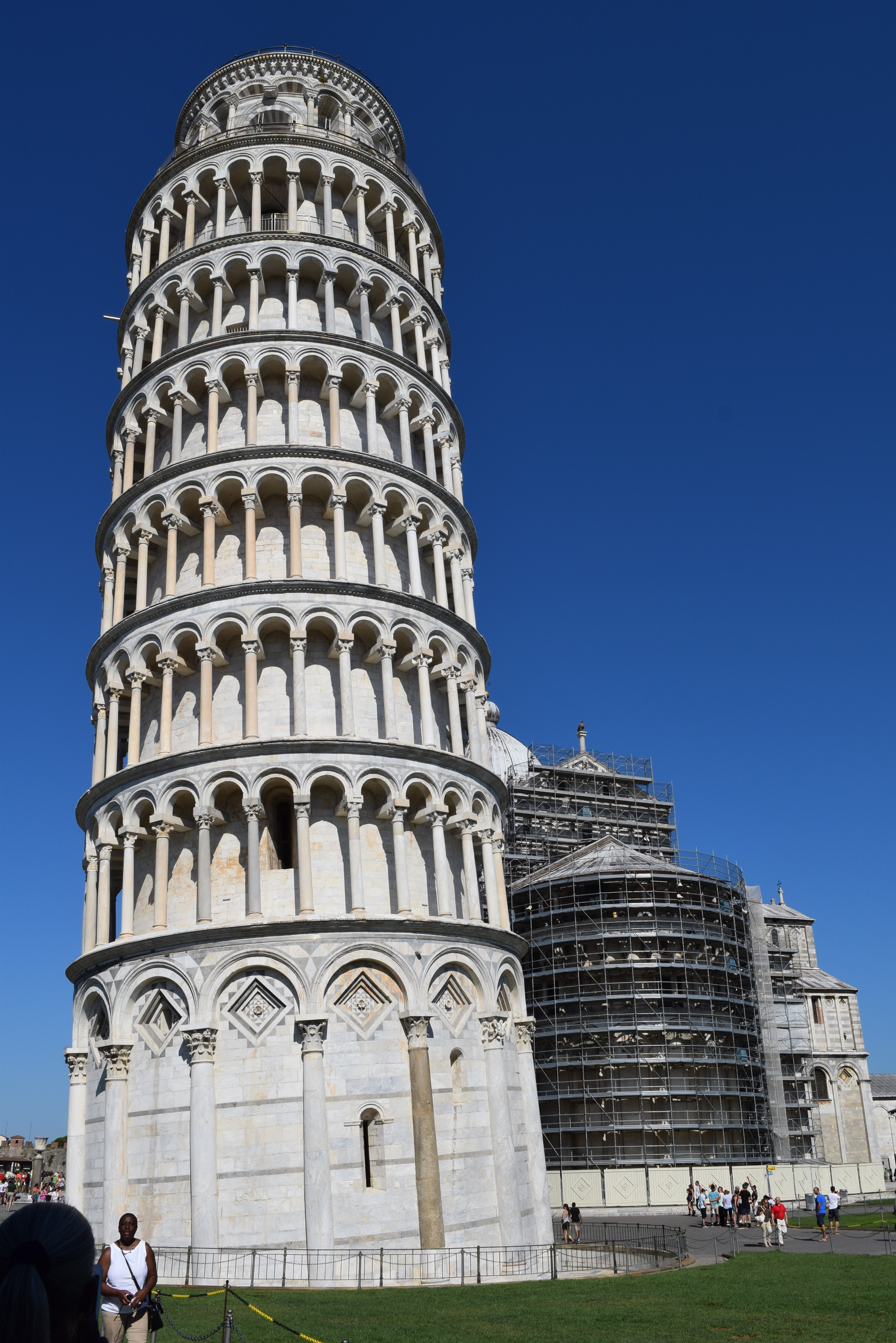 The structural flaw in the foundation cause the inclination that has made famous the "Leaning Tower" which is part of the architectural ensemble of the city of Pisa in Italy